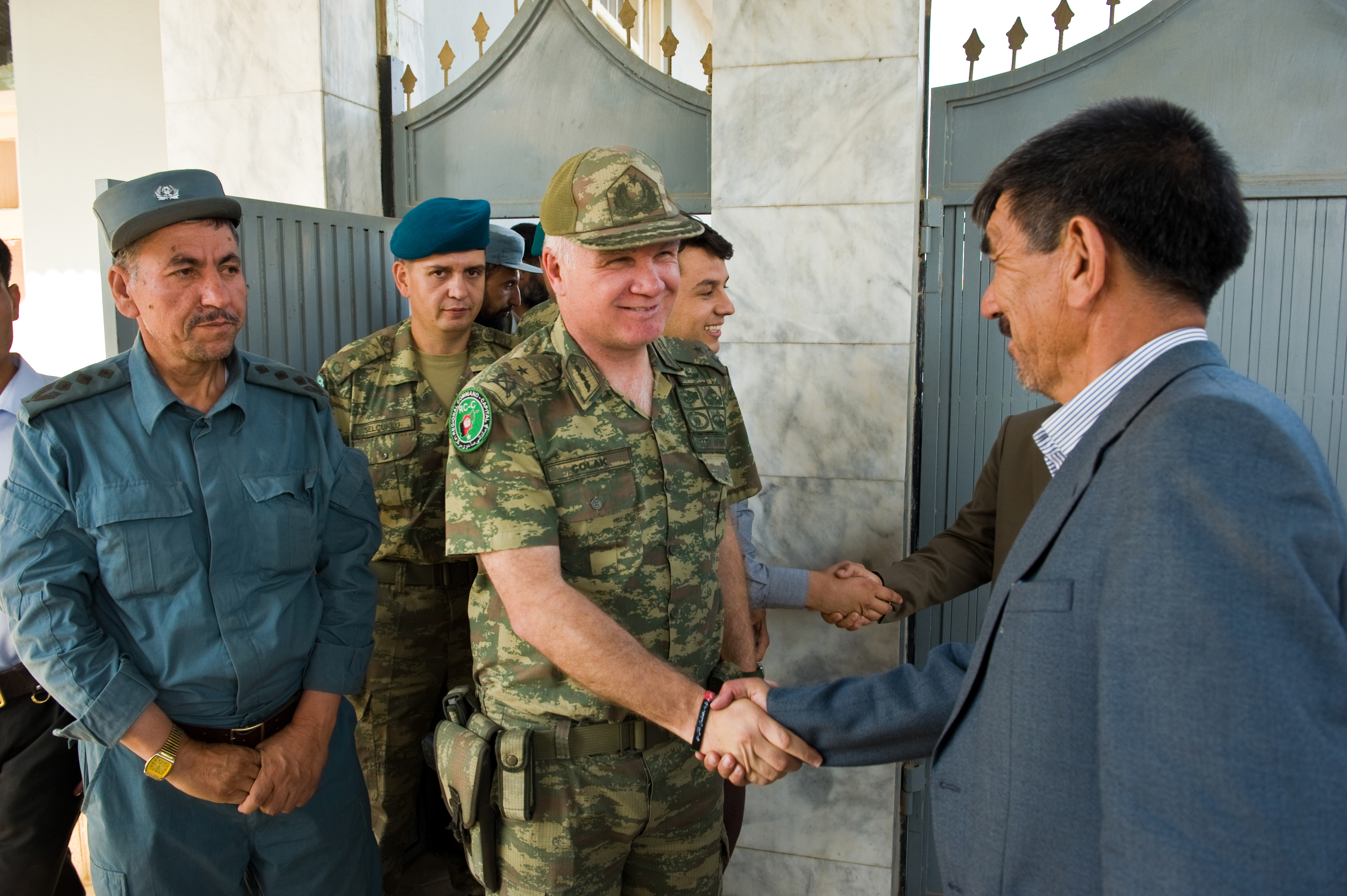 Brigadier General Colak, Commander, Regional Command (RC) Capital, arrives in Hazret Ibrahim mosque, Deh Kabul district, Kabul Afghanistan. Colak, Turkish Army, is leading a food distribution organised by the Turkish containgent of the International Security Assistance Force (ISAF) on September 14, 2010. (Photo by SSgt. Romain Beaulinette, IJC Public Affairs.)